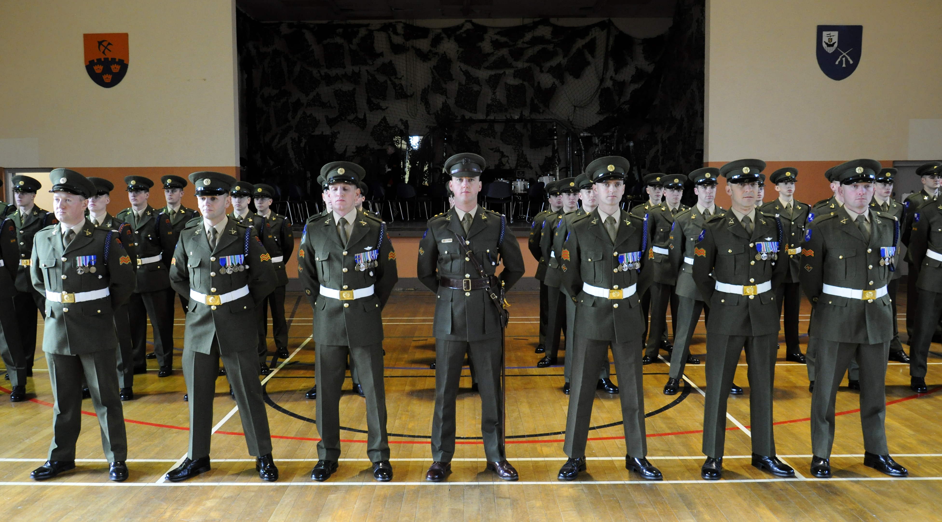 131 Recruit Platoon - Passing out ceremony